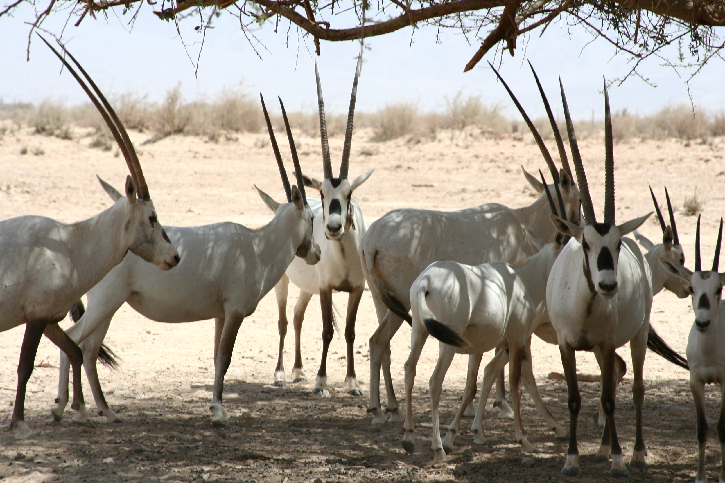 Arabian Orix, Antelope Ranch, Israel